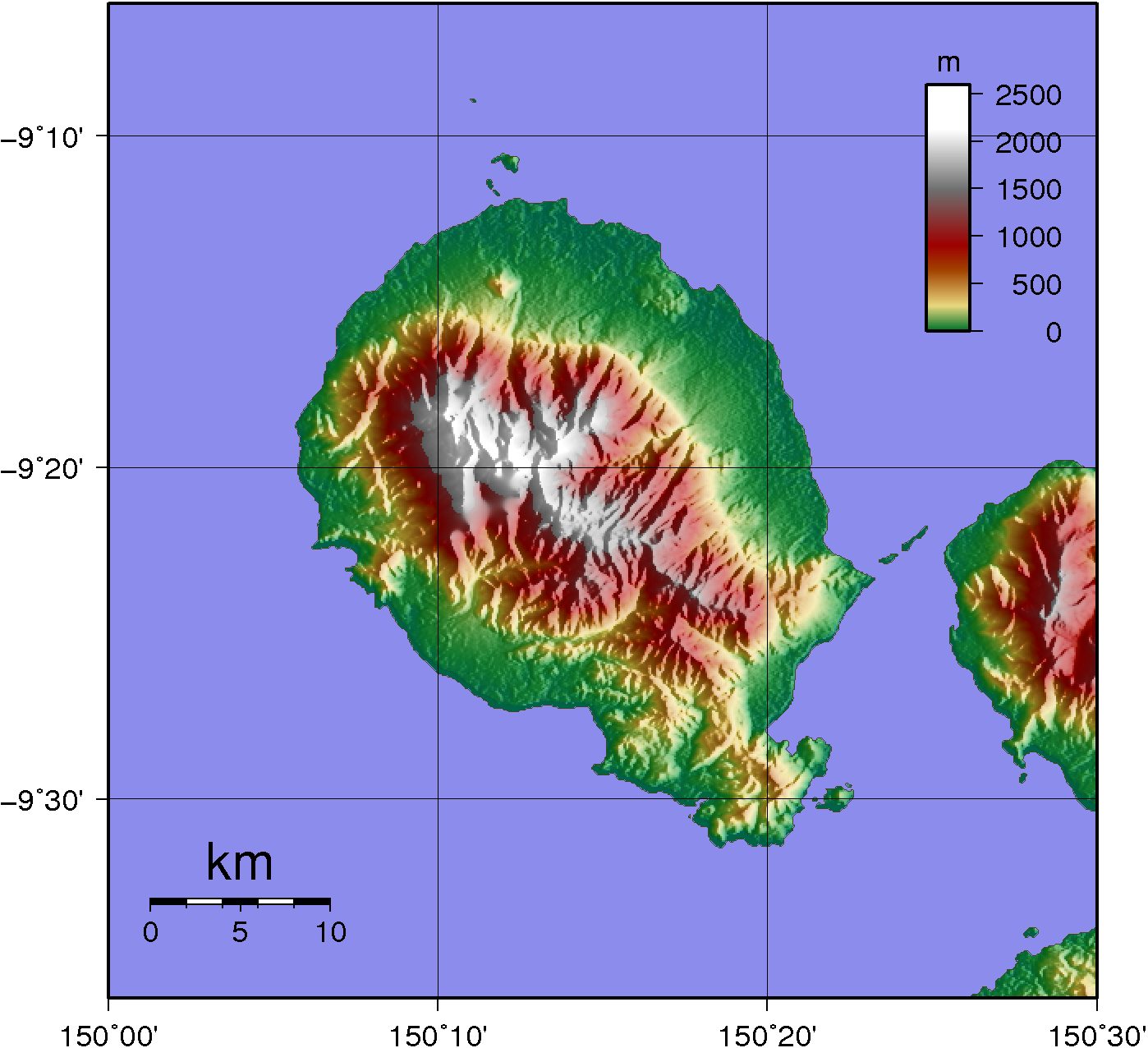 Topographic map of Goodenough Island SRTM data has lots missing data up in the mountains...